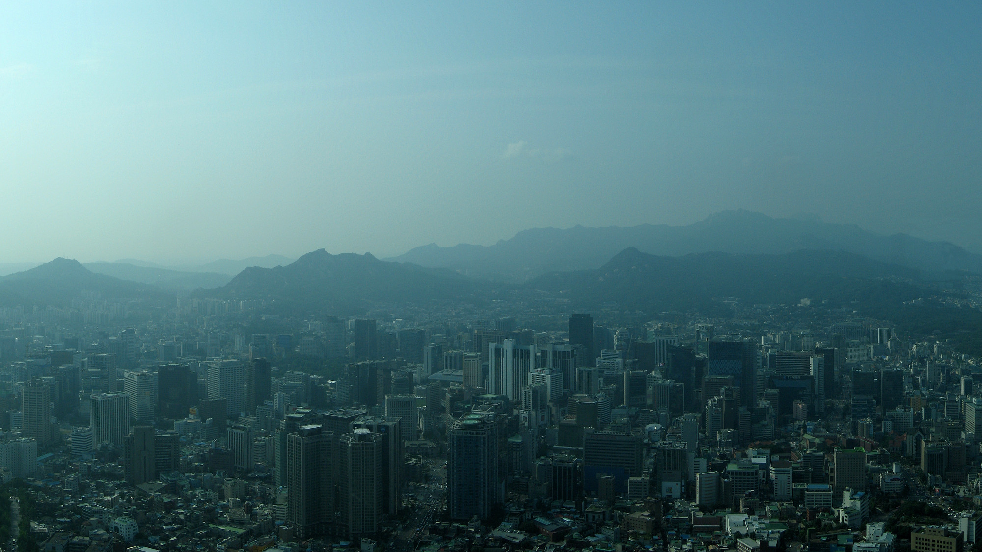 Seoul panorama